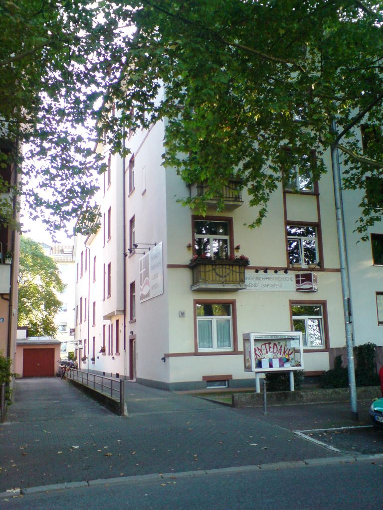 Baptist Church Union of Evangelical Free Church Congregations in Germany in Frankfurt/Main, Am Tiergarten 50, Hesse, Germany